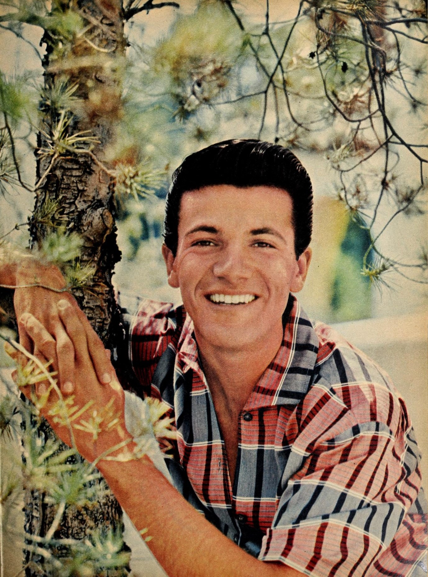 Tommy Sands, 1958